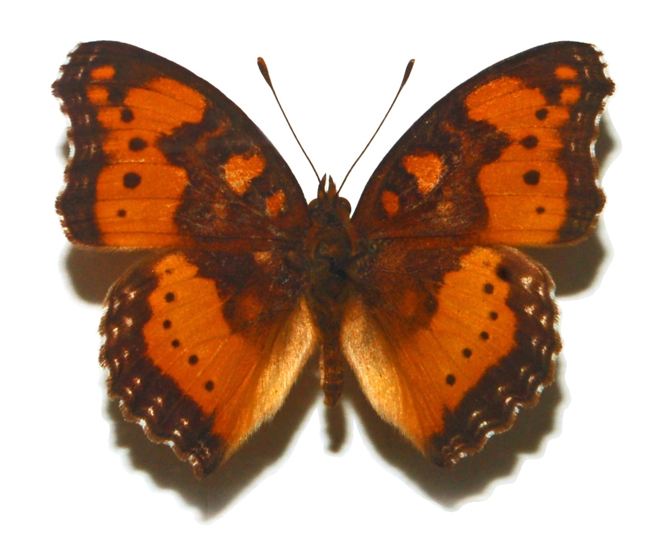 Mounted specimen of Precis antilope f. simia (i.e. wet-season form) from Eritrea. It resembles the wet-season form of P. cuama, which however has white centres to the subapical black spots. P. pelarga has the white centers as well, but extensive pale pink enters its orange bands.